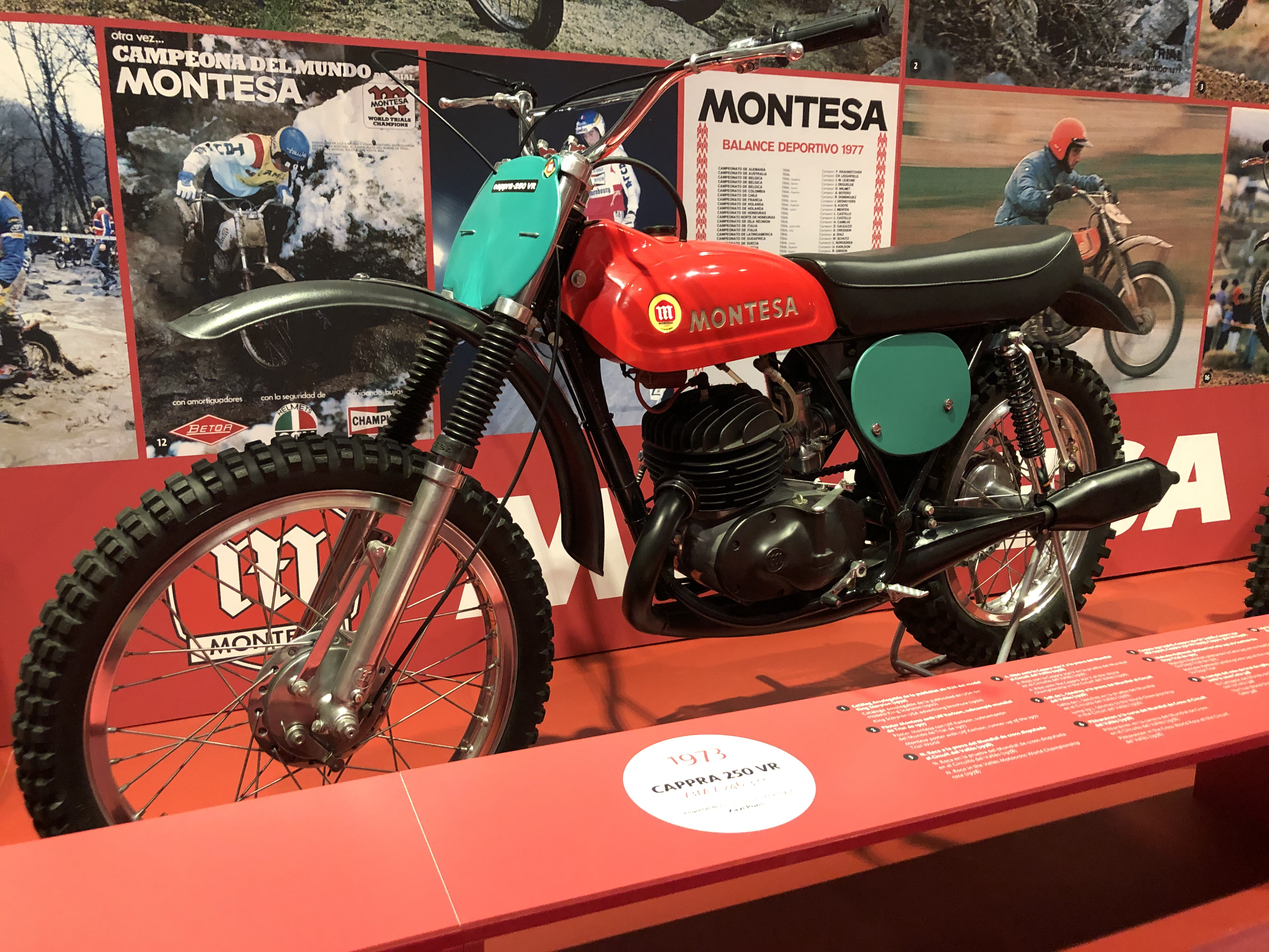 Montesa Cappra 250 VR (1973), Mod. 73M, 246.3 cc